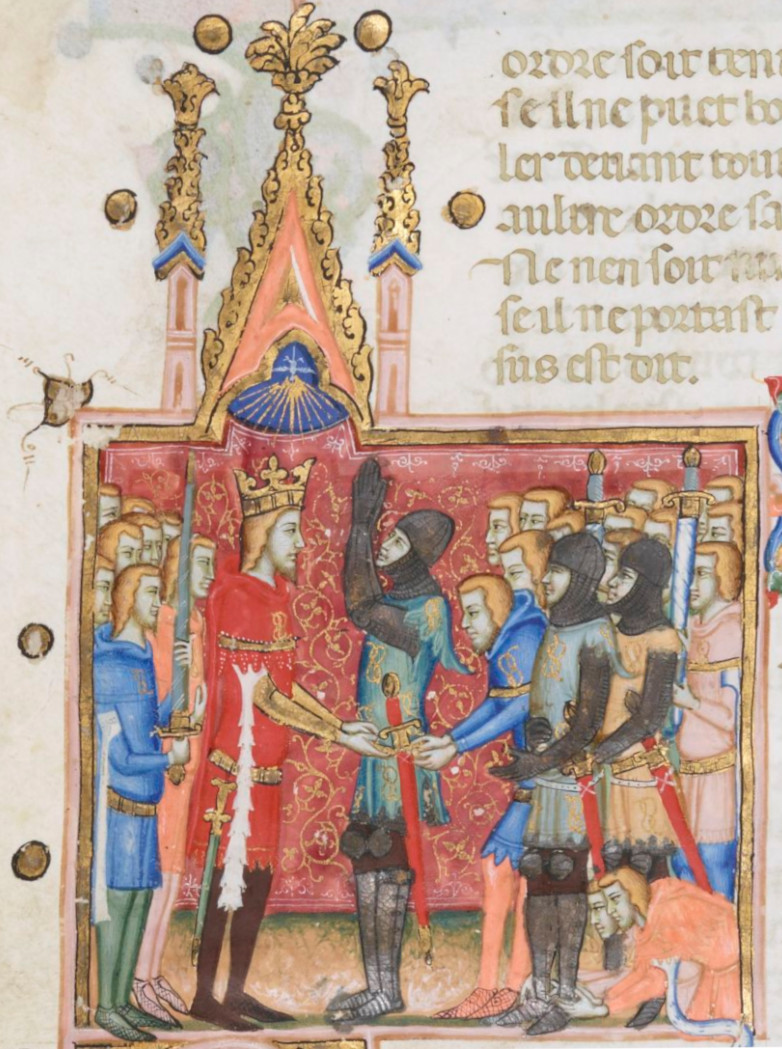 Miniature of the investiture of a knight, from the statutes of the "Order of the Knot" (L’ordre du Nœud ou ordre du Saint-Esprit au Droit Désir), founded 1352 by Louis of Naples. The golden knot emblem of the order is visibly carried on the breast by members. The three newly invested knights are fully armed, and wear tunics semy with the golden knot emblem.